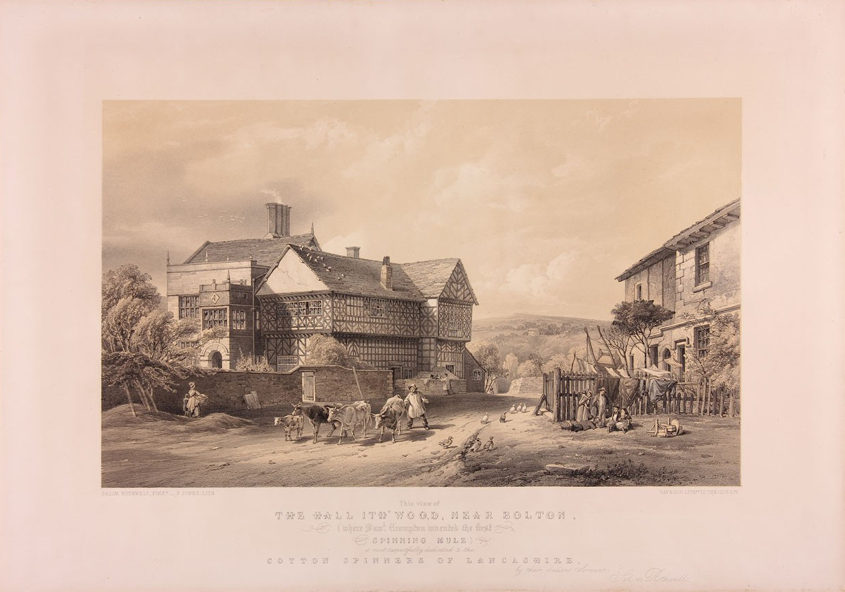 Photograph of a lithograph of Hall i' th' Wood